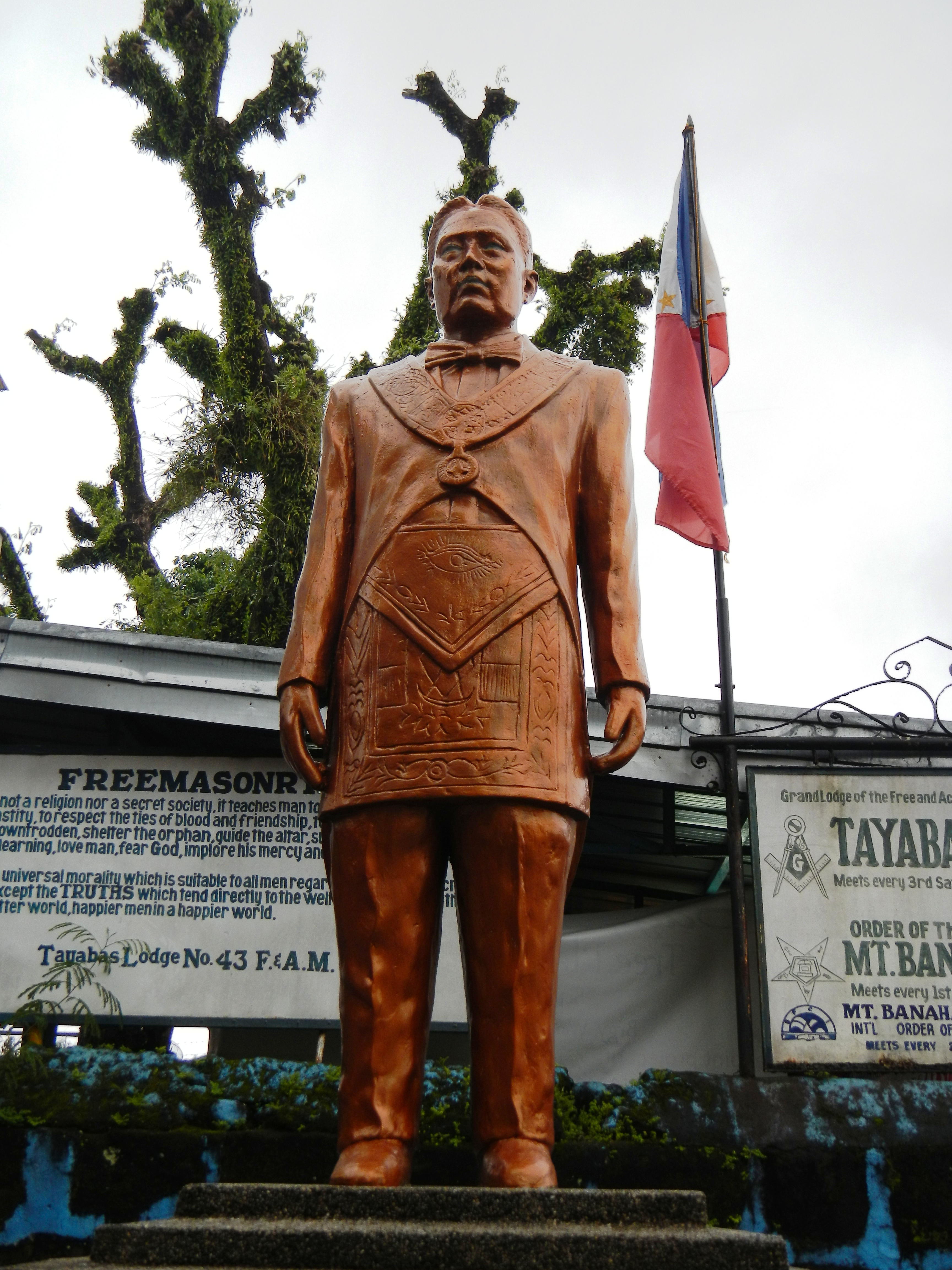 Upload Wizard photos of -- (general description of landmarks, town, Church, going to dark, sunset conditions) -Town Proper, Downtown, Centro, TayabasTown Hall, Town Plaza and the Heritage Casa de Comunidad de Tayabas 1776 Casa Tribunal de Tayabas Casa Comunidad Historic Landmark by the National Historical Institute - Pook Pangkasaysayang Casa Comunidad the biggest "Bahay na Bato" ever restored [1] Tayabas[2] City.